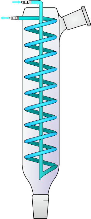 Stylized diagram of a Friedrich condenser